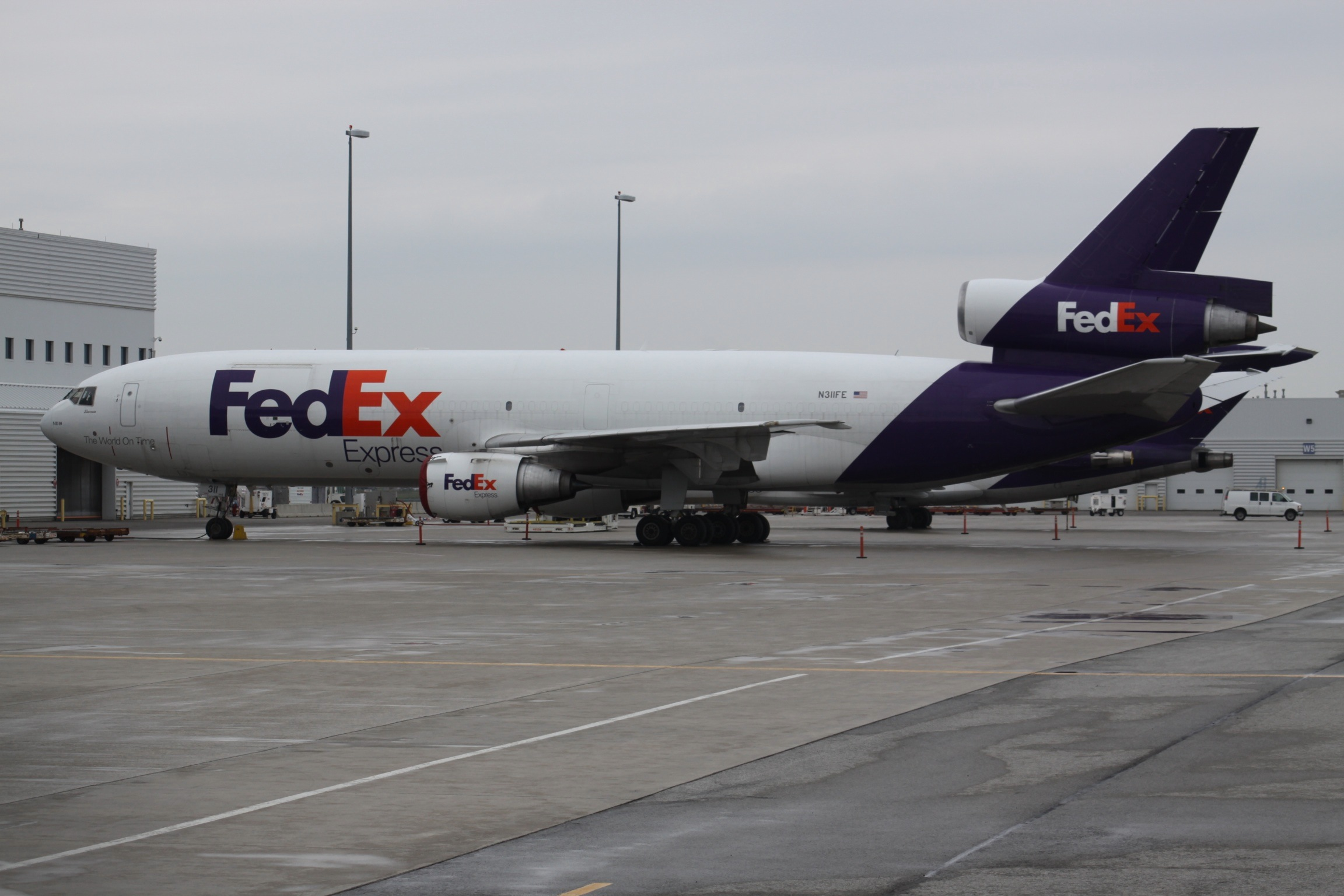 At Toronto Pearson International